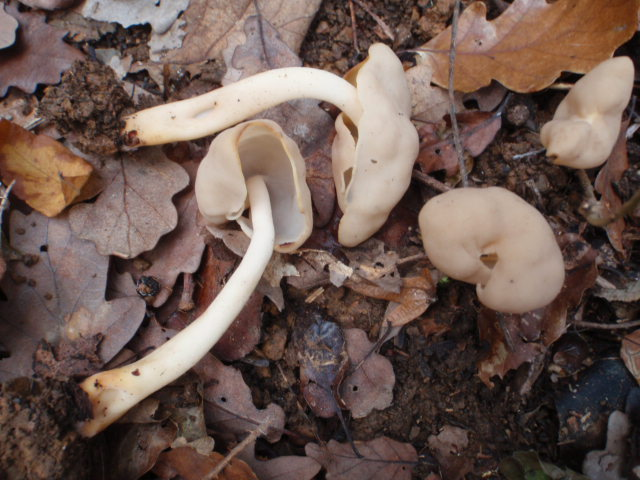 The mushroom Helvella elastica Bull. Photographed in Belgrad Forest, Istanbul, Turkey.